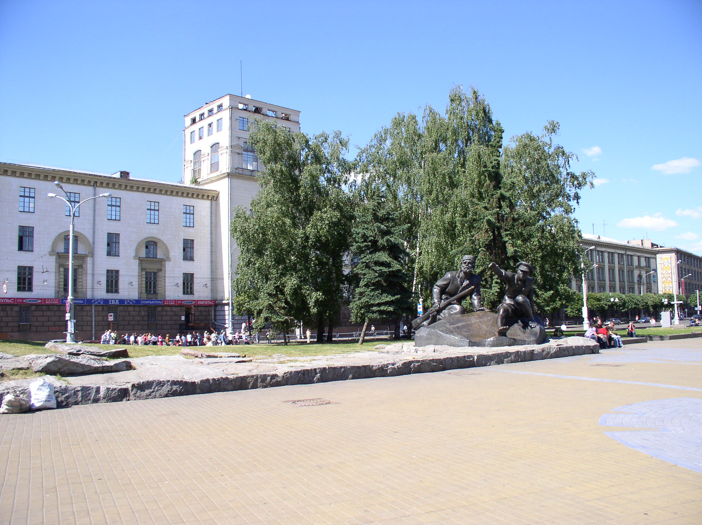 Yakub Kolas Square, Minsk, Belarus.